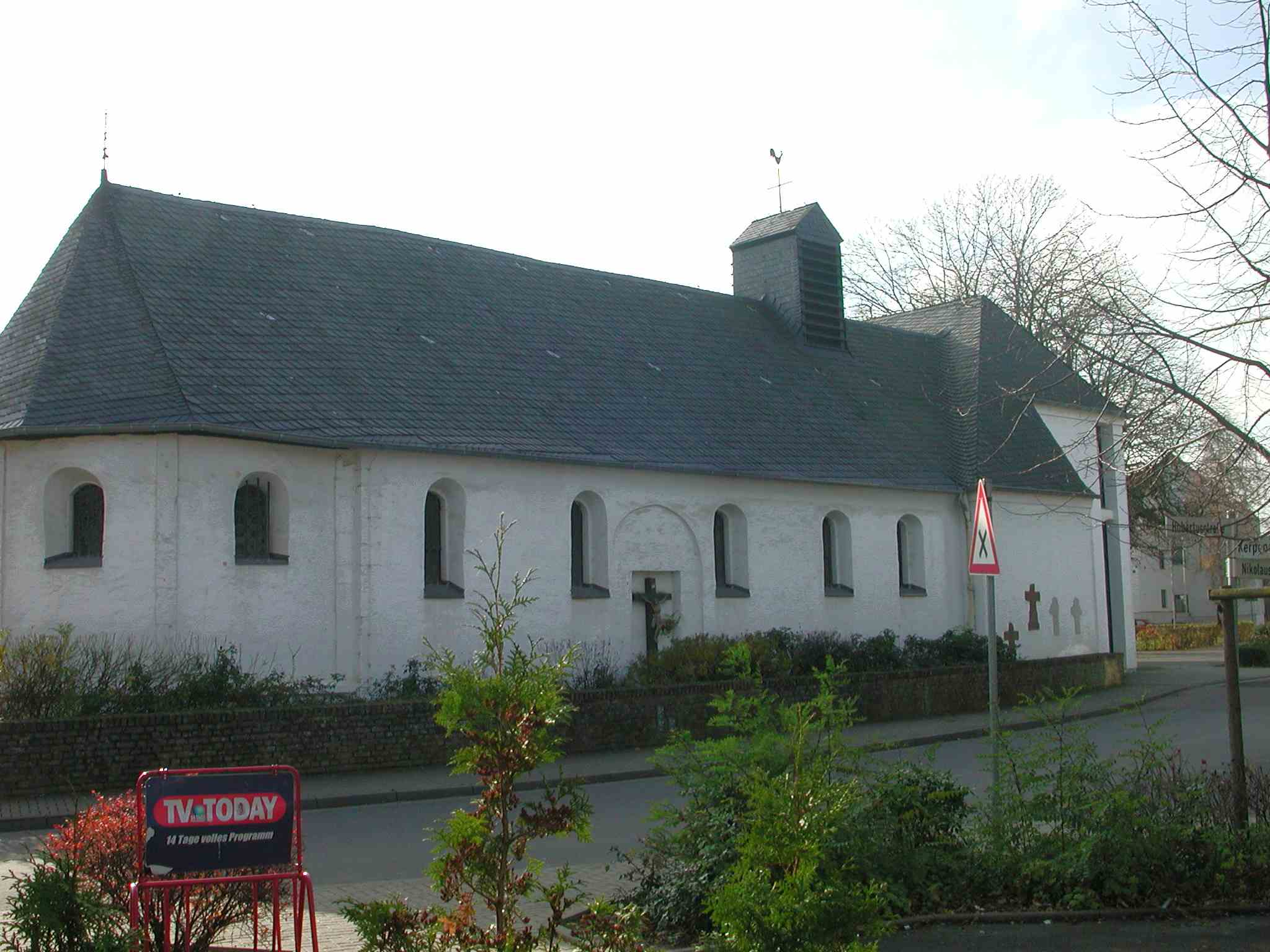 Die Nikolauskapelle in Rath bei Nörvenich